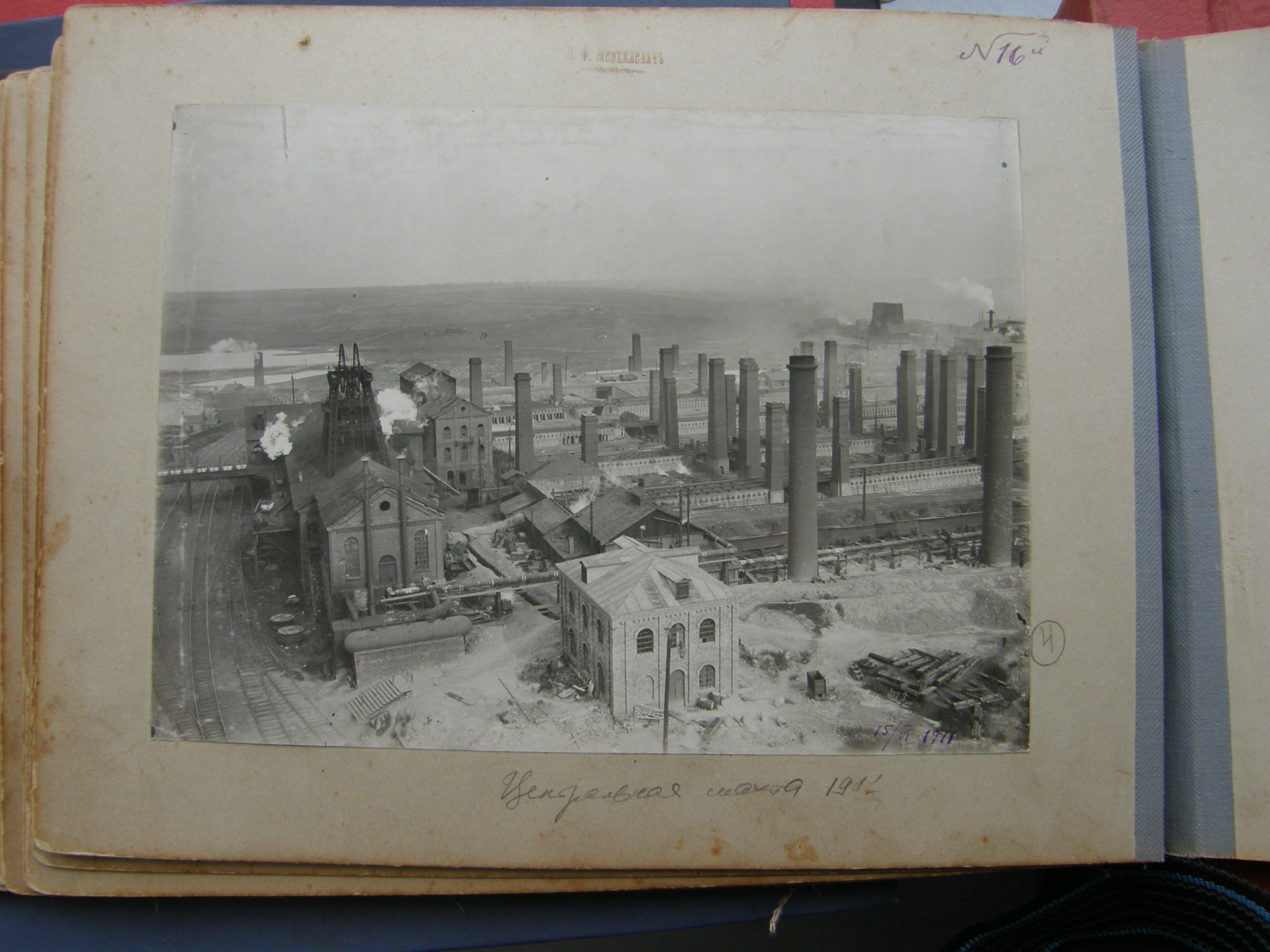 Photo from the Museum of History of Donetsk metallurgical plant